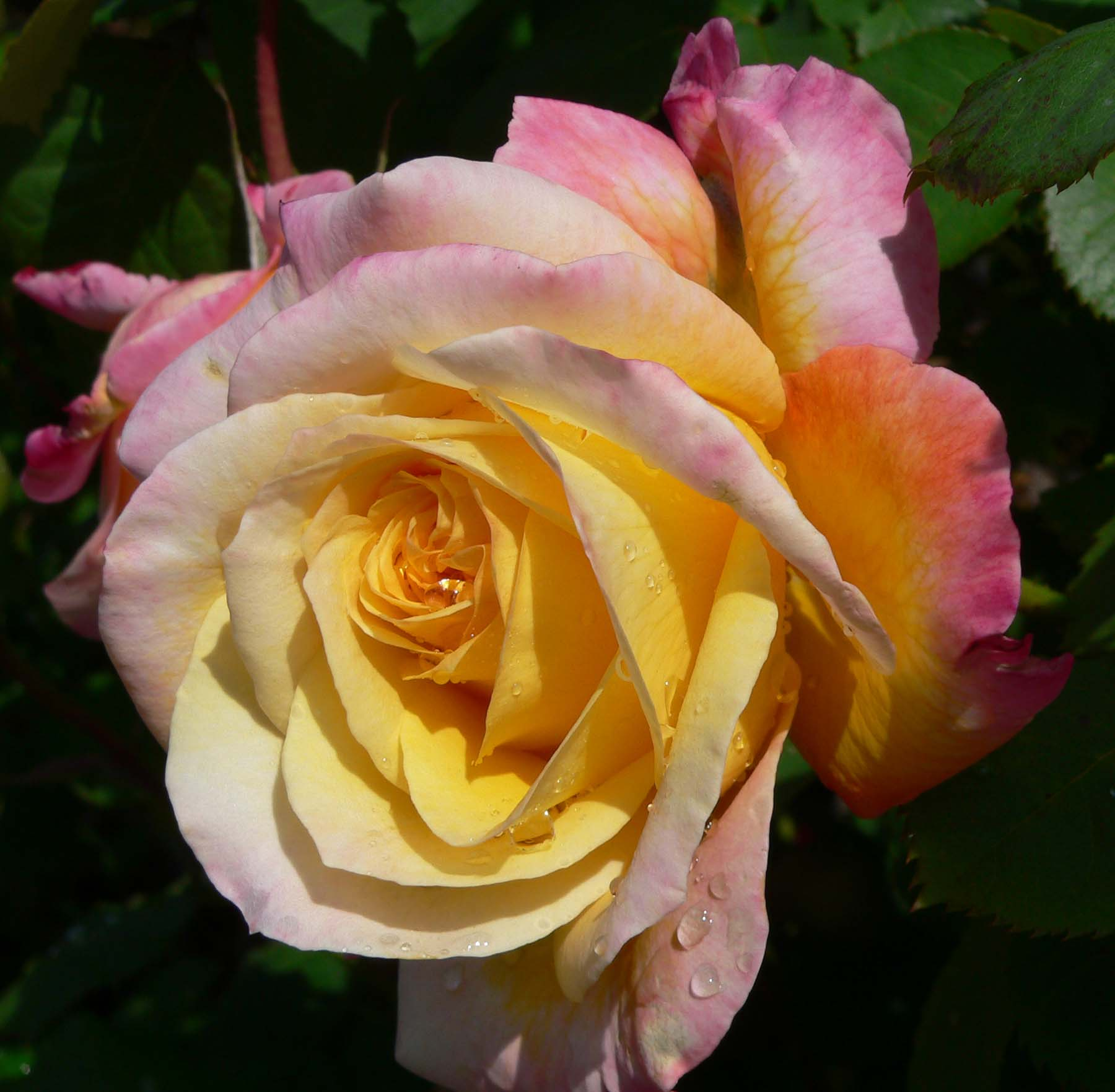 Photo of Rosa 'Charivari' at the San Jose Heritage Rose Garden